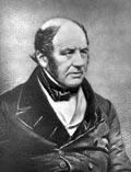 Low-resolution image of Samuel A. Cartwright, the psychiatrist.